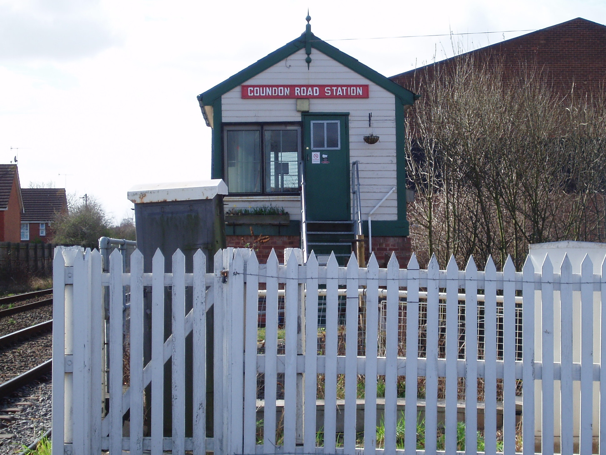 The LNWR signal box at the site of the former Coundon Road railway station, Coventry, West Midlands, England.